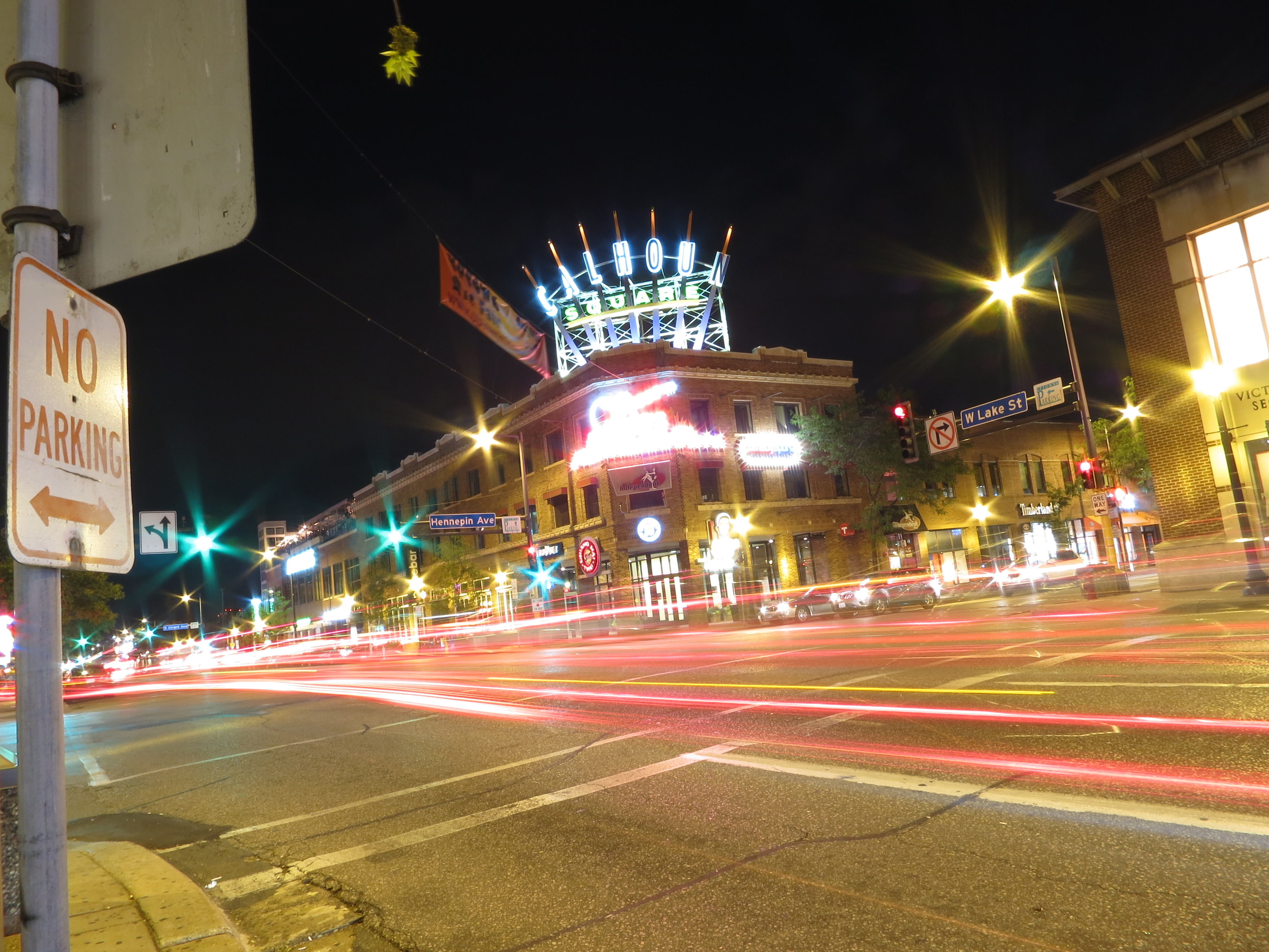 Lake Street and Hennepin Avenue, looking southeast at Calhoun Square.